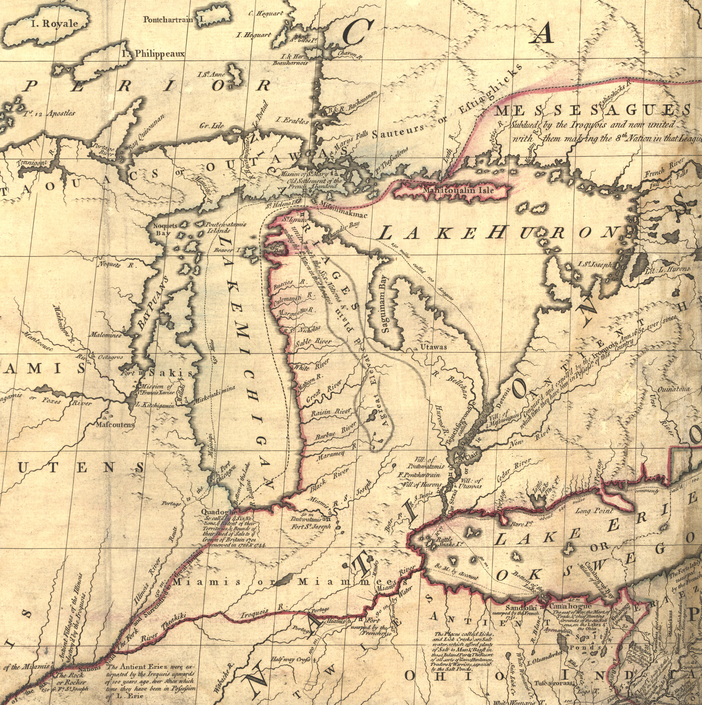 Mitchell Map - A map of the British and French dominions in North America,...; 1757, cropped to Michigan region